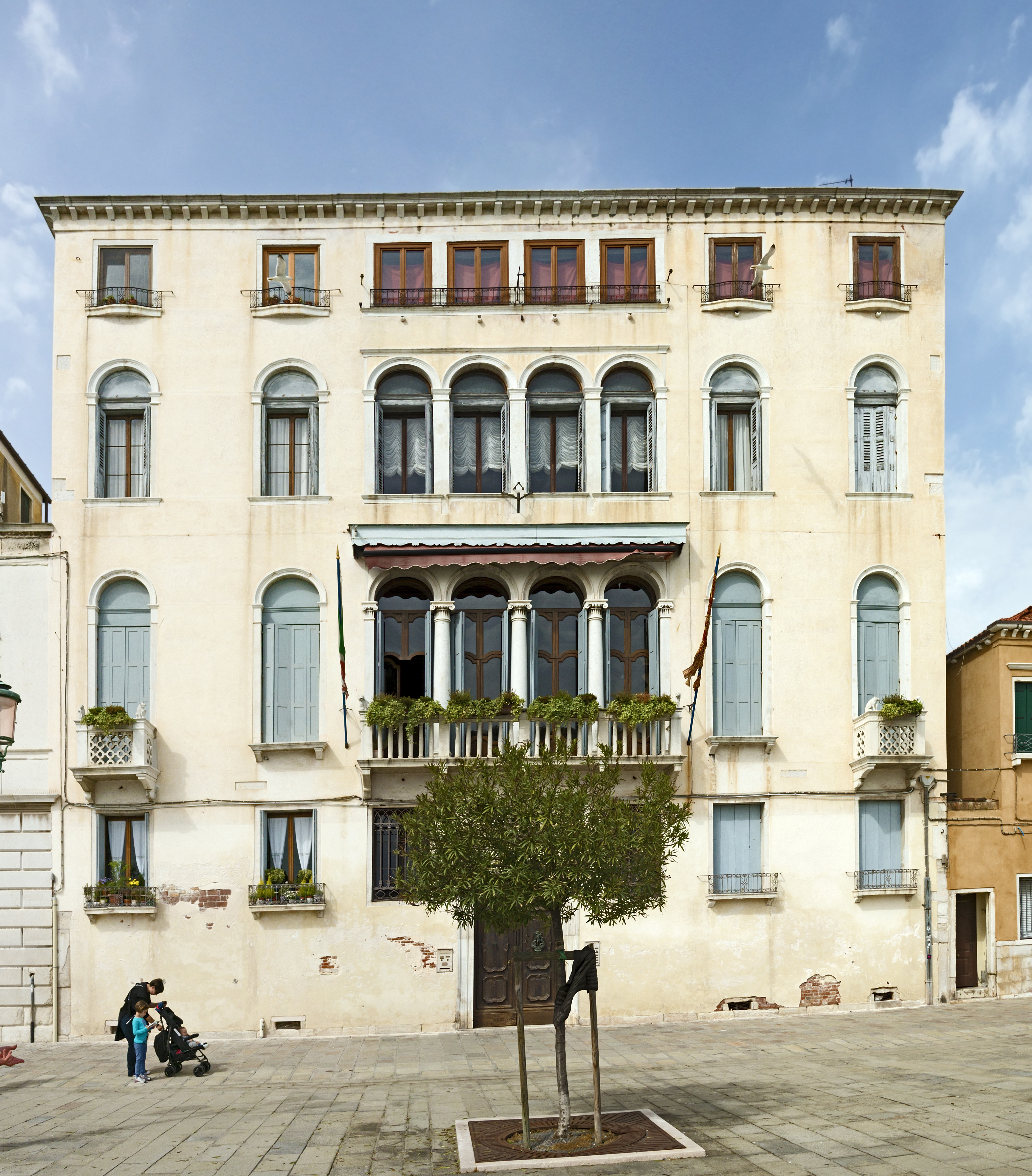 Palazzo Clary Venice. Facade on fondamenta delle Zattere.